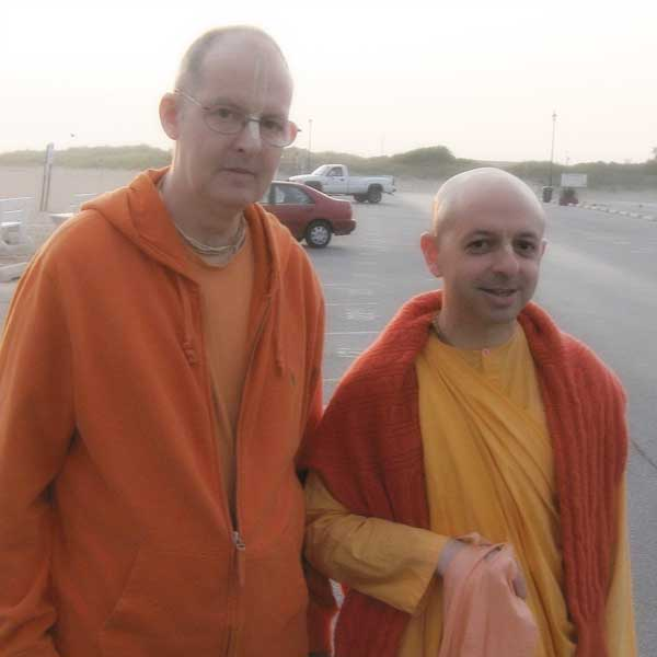 Photograph of Satsvarupa das Goswami and his disciple Yadunandana Swami in DE, USA (Yadunandana Swami and Satsvarupa dasa Goswami in 2009)